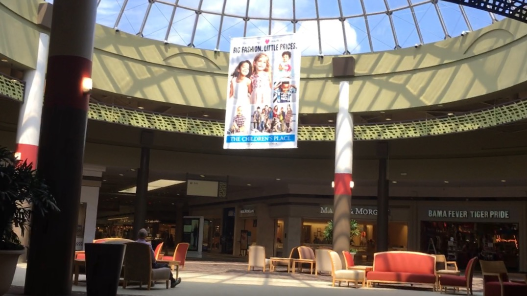 Center Court